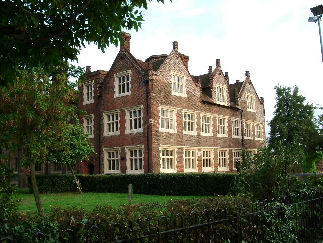 Eastbury Manor Barking. This is a photograph of Eastbury Manor Barking. The kind of building that is far from typical in the area. Built in the mid 17th Century by a wealthy merchant; Clement Sysley on land once owned by Barking Abbey. Over the centuries the building passed through many hands falling into decay in the early part of the 20th century. The manor was saved for the nation by the National Trust in 1918.